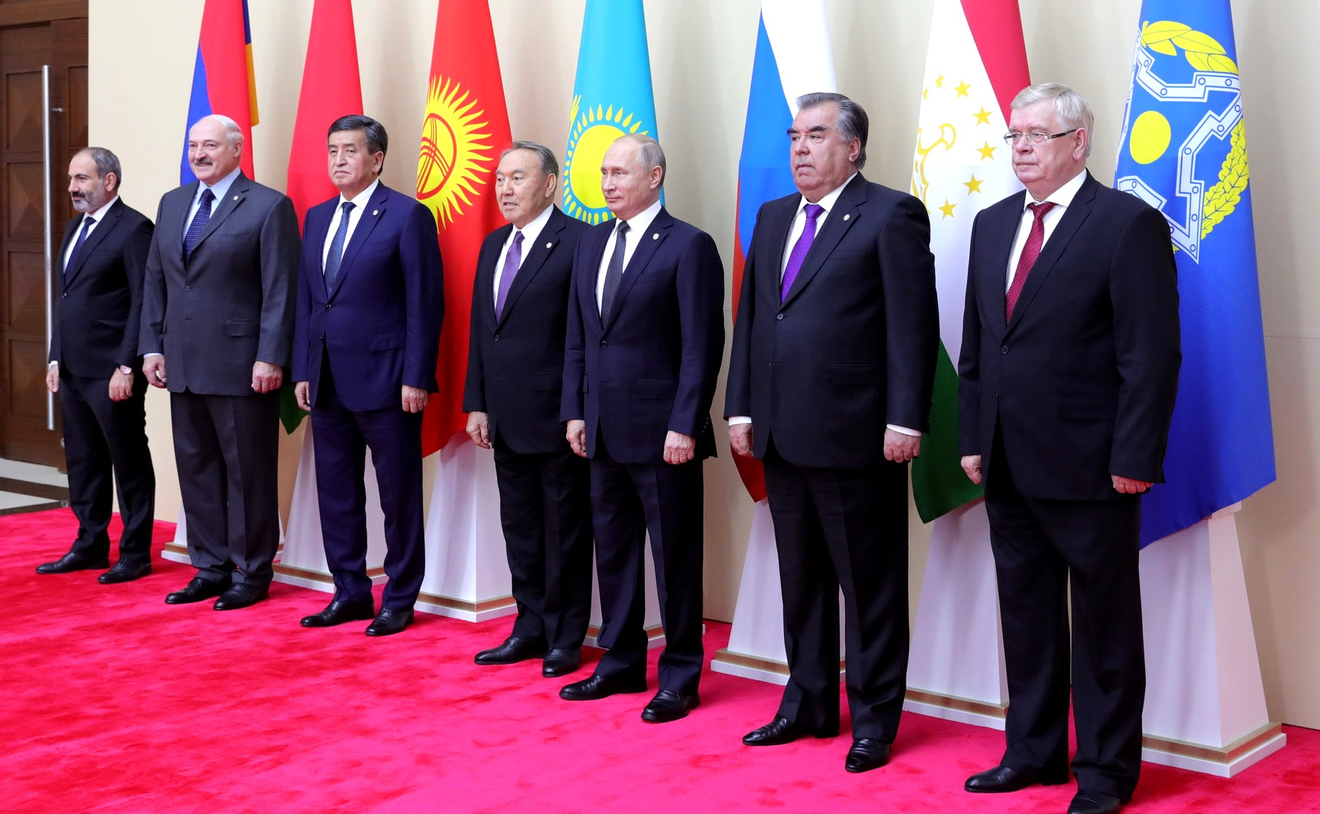 The President of Russia attended the CSTO Collective Security Council meeting in Nur-Sultan.